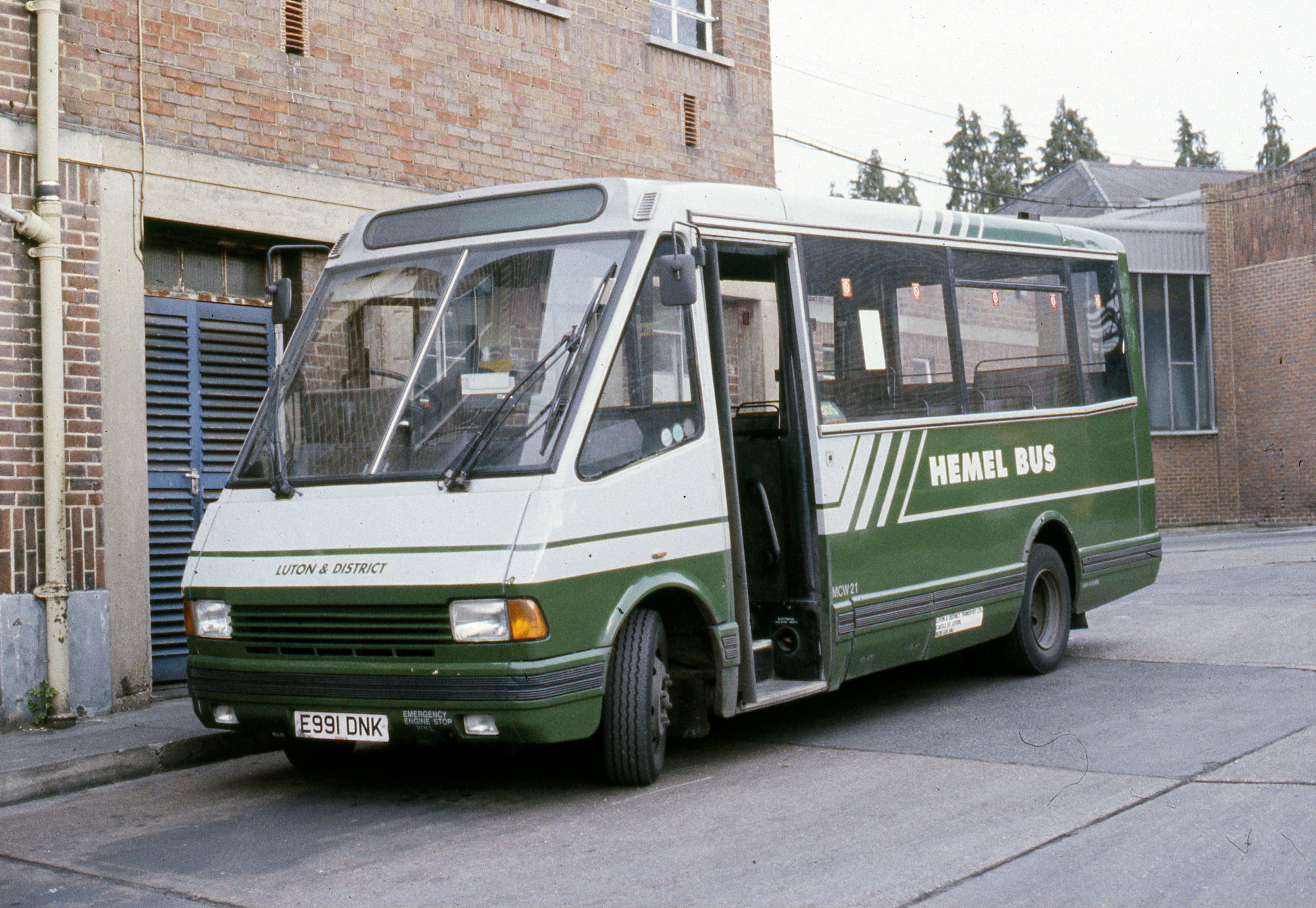 London Country Bus (North West) "Hemel Bus" MCW Metrorider MCW21 (E991 DNK) at Hemel Hempstead depot, spring 1992